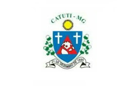 Flags of the city of Catuti, Minas Gerais, Brazil.